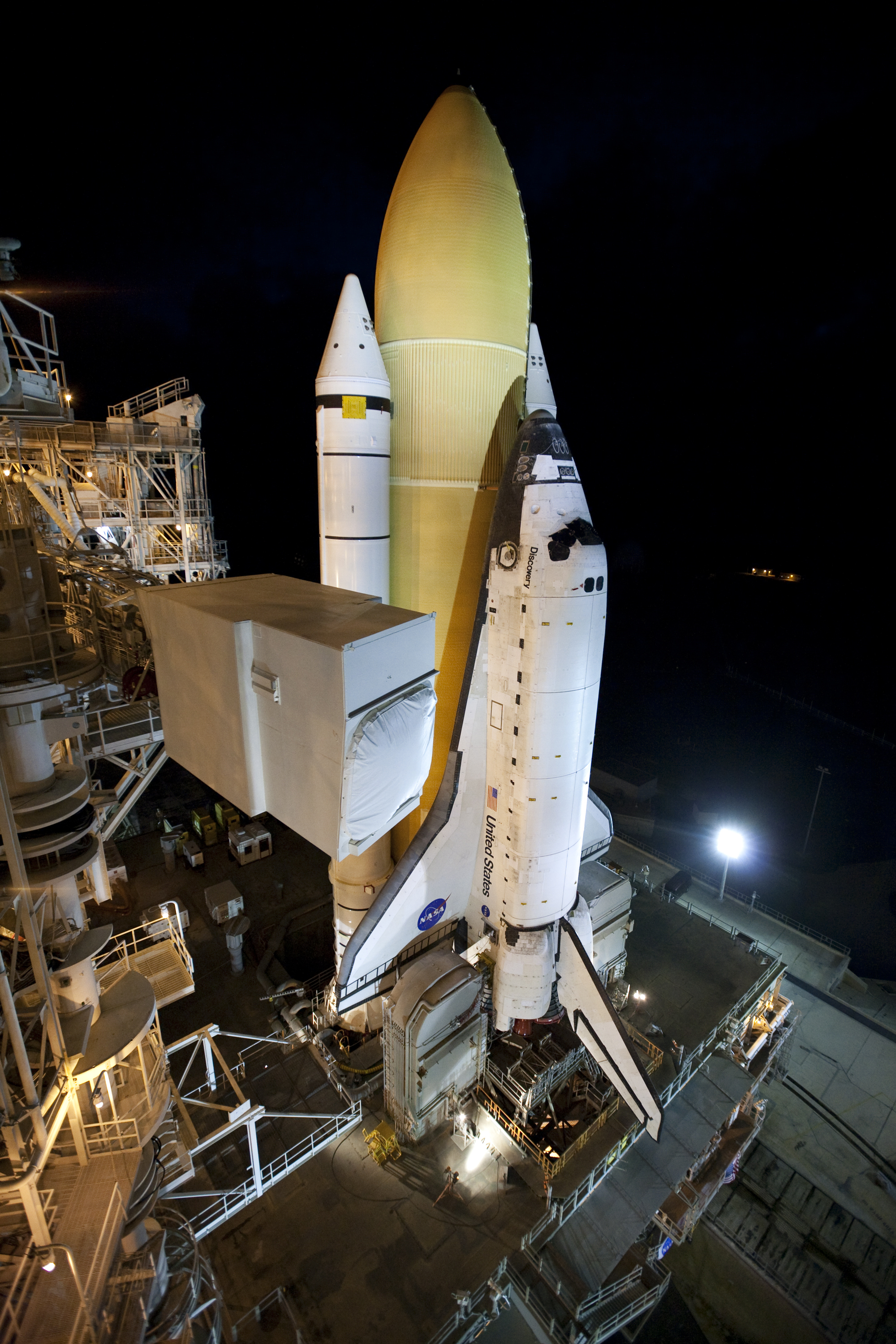 CAPE CANAVERAL, Fla. – On Launch Pad 39A at NASA's Kennedy Space Center in Florida, the pad's White Room, which provides workers and astronauts an entry point to a shuttle's crew compartment, awaits placement against space shuttle Discovery. Discovery's first motion on its 3.4-mile trip from the Vehicle Assembly Building was at 11:58 p.m. EST March 2. The shuttle was secured on the pad at 6:48 a.m. March 3. Rollout is a significant milestone in launch processing activities. The seven-member STS-131 crew will deliver the multi-purpose logistics module Leonardo, filled with resupply stowage platforms and racks, to the International Space Station aboard Discovery. Targeted for launch on April 5, STS-131 will be the 33rd shuttle mission to the station and the 131st shuttle mission overall. For information on the STS-131 mission and crew, visit